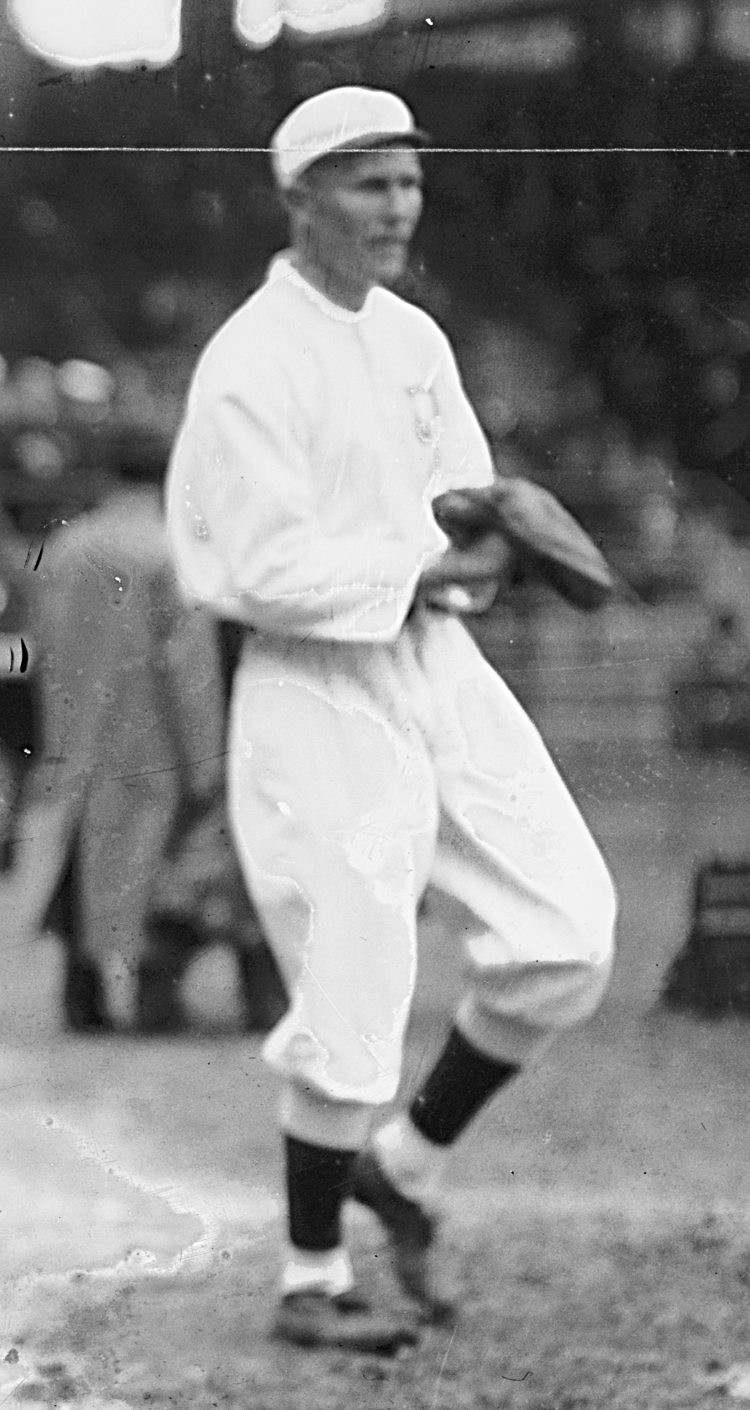 Baseball player Bill Fischer of the Brooklyn Robins.